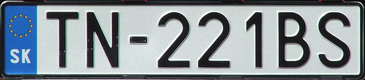 Slovak vehicle licence plate after entry to the EU as seen in 2007 - TN stands for Trenčín